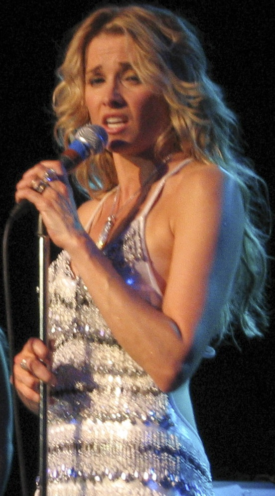 Lucy Lawless in concert at The Roxy in Los Angeles, CA - January 14th, 2007.